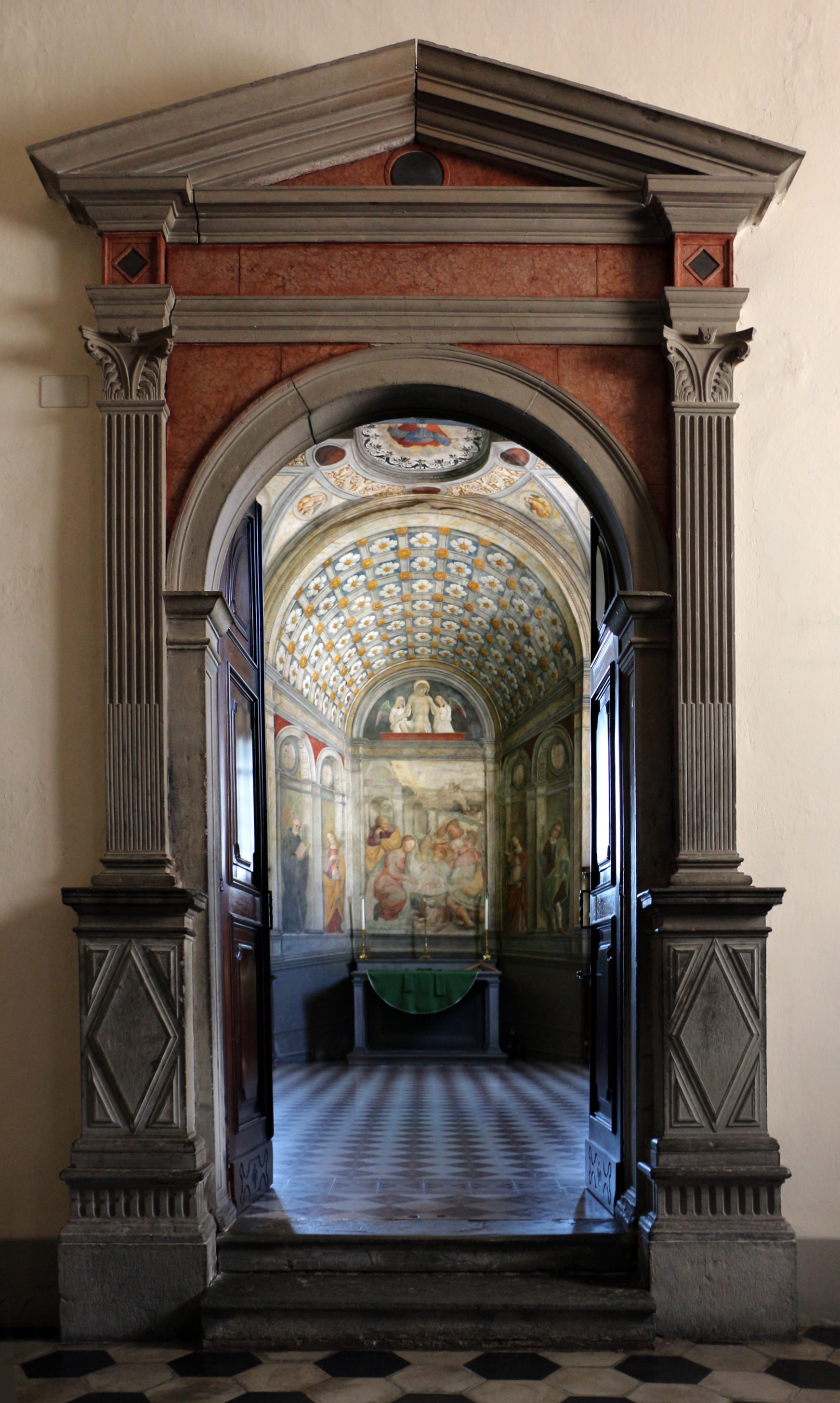 Abbazia di Pontida